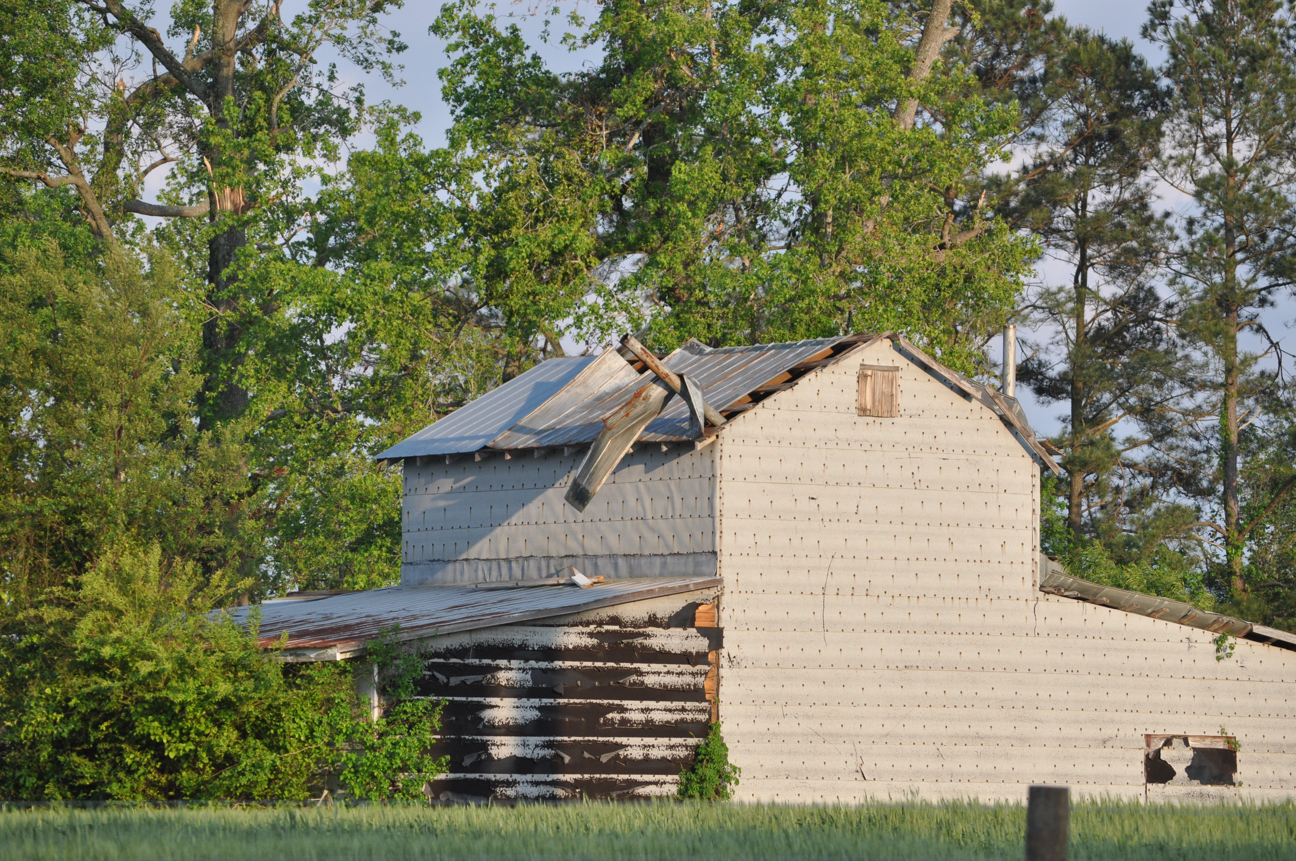 Tornado damage from the April 16, 2011 North Carolina tornado outbreak near Dunn, North Carolina, as seen from Interstate 95.